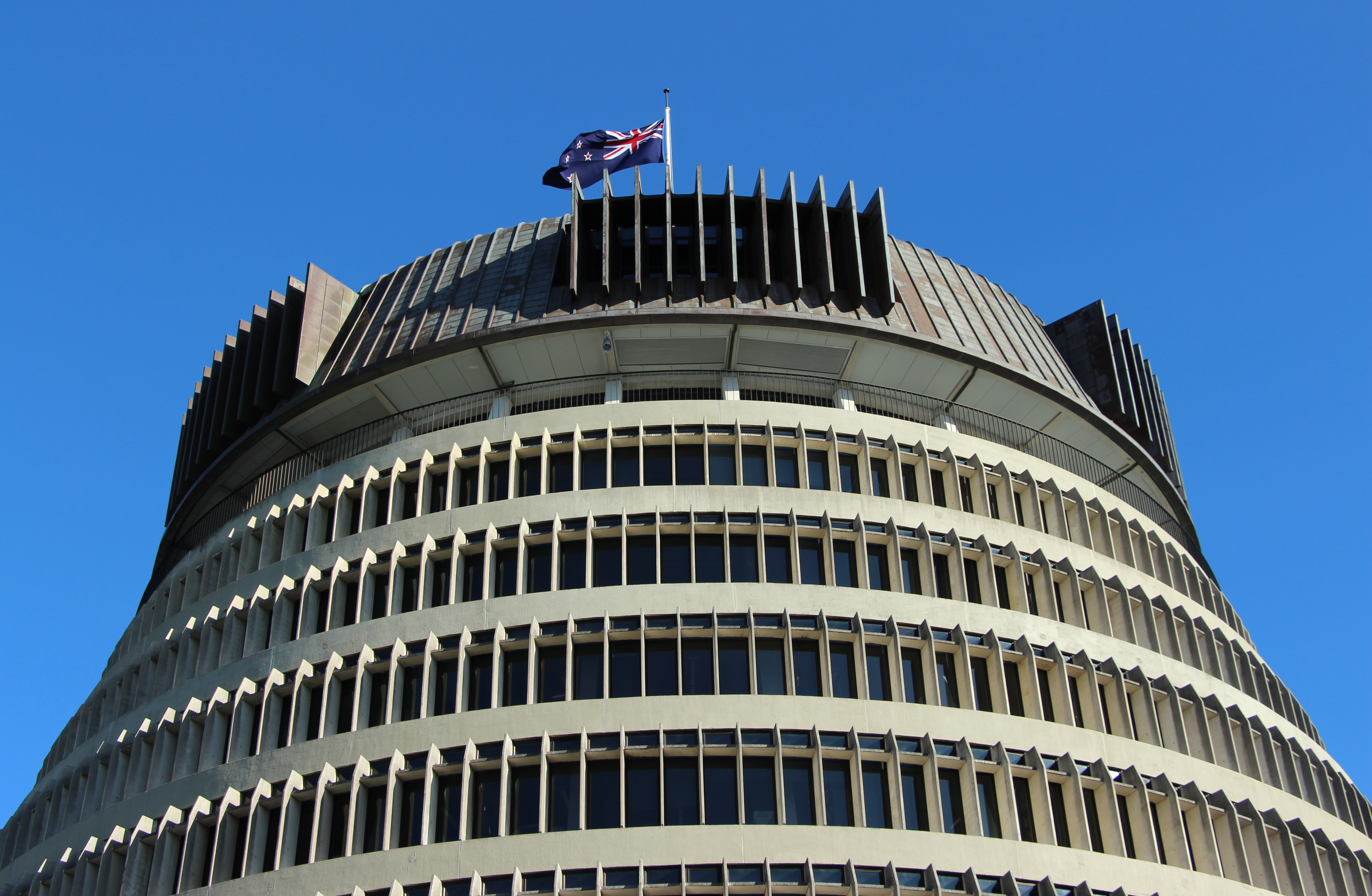 Beehive. Wellington, New Zealand